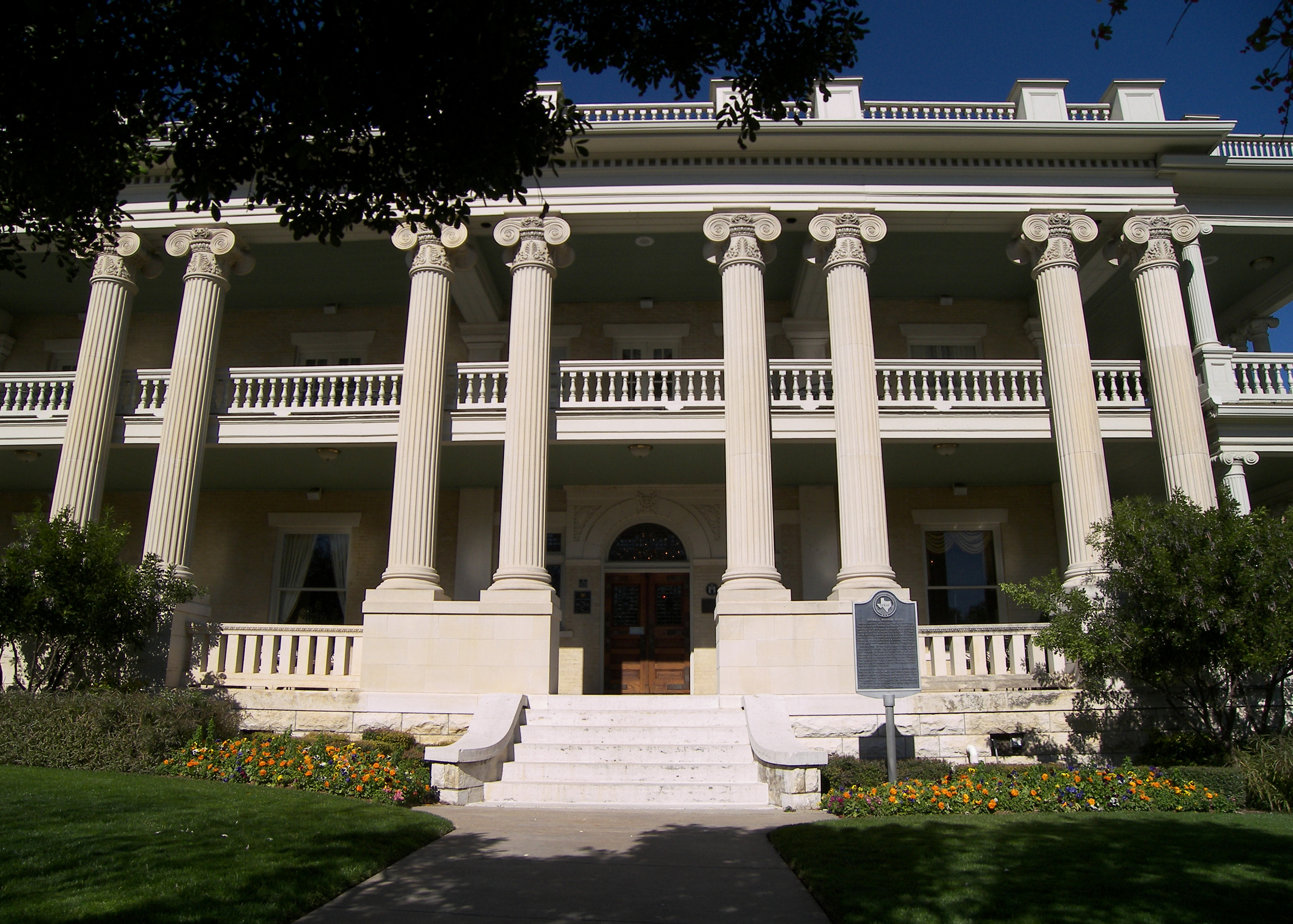 The Goodall Wooten House also known as "The Mansion at Judges' Hill" located at 1900 Rio Grande, Austin, Texas, United States. The structure was listed on the National Register of Historic Places on April 3, 1975.